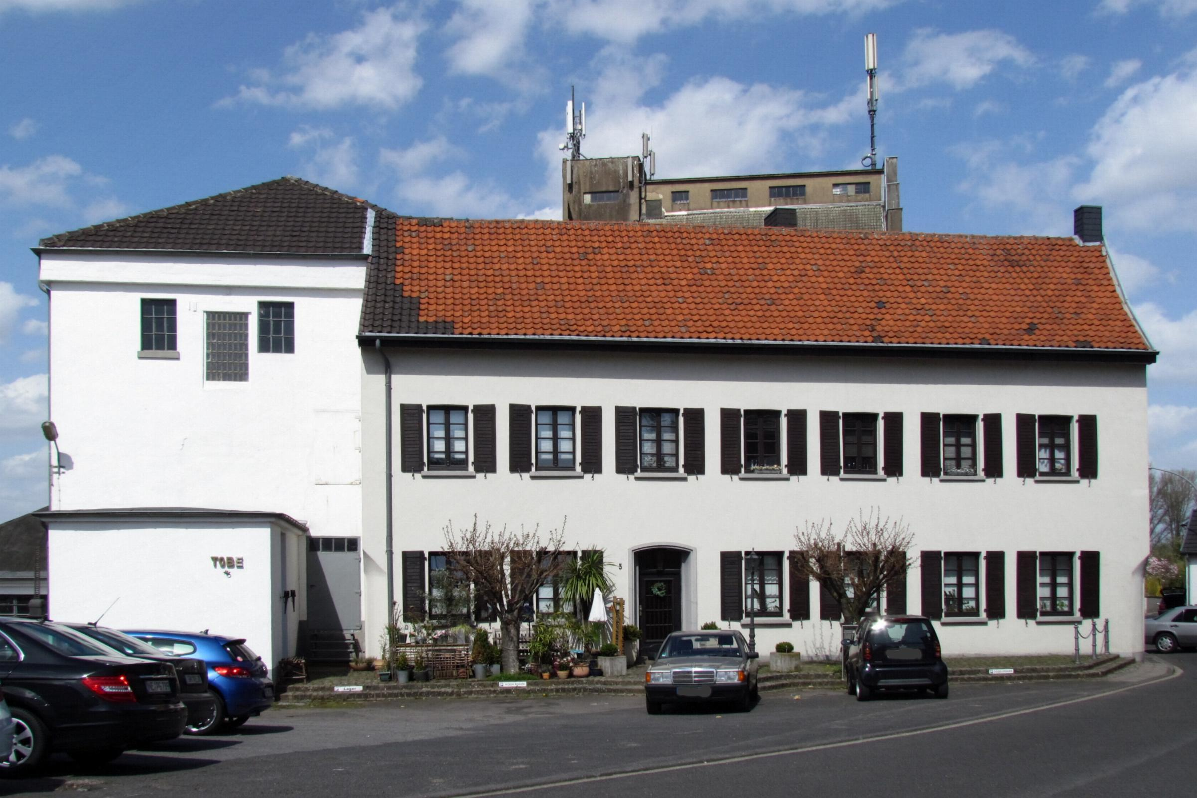 This is a photograph of an architectural monument.